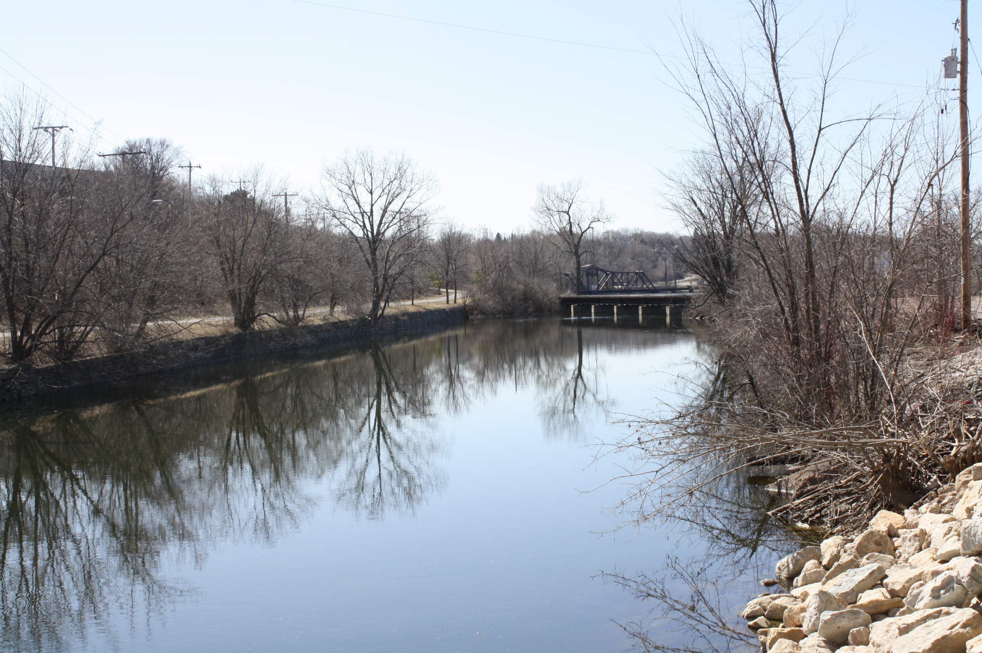 The #4 lock on the Fox River (Wisconsin) in Appleton, Wisconsin, listed on the National Register of Historic Places as the Appleton Lock 4 Historic District.